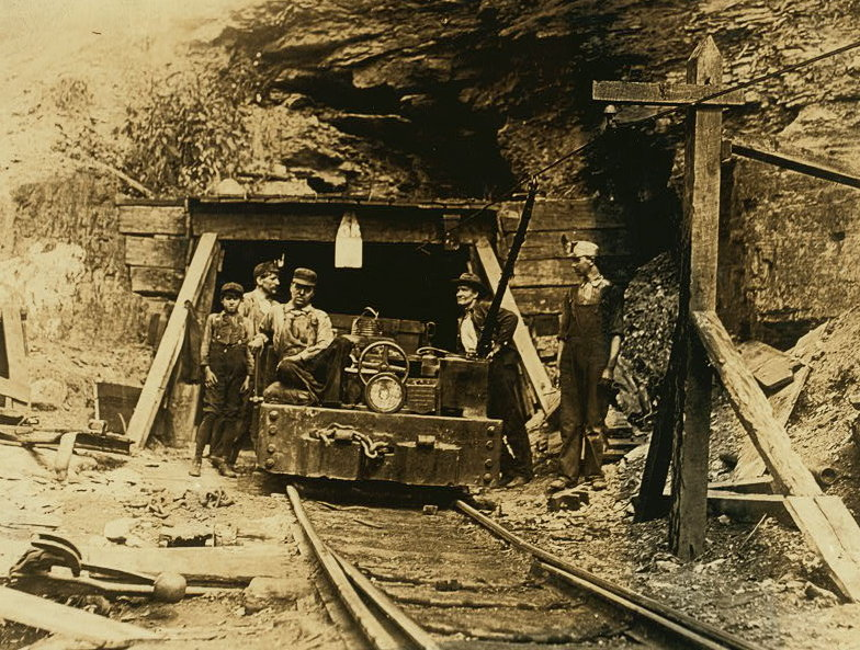 Entrance to a W. Va. coal mine: a "drift" mine. The live-wire was only shoulder -high in places inside, and unprotected. Location: West Virginia.